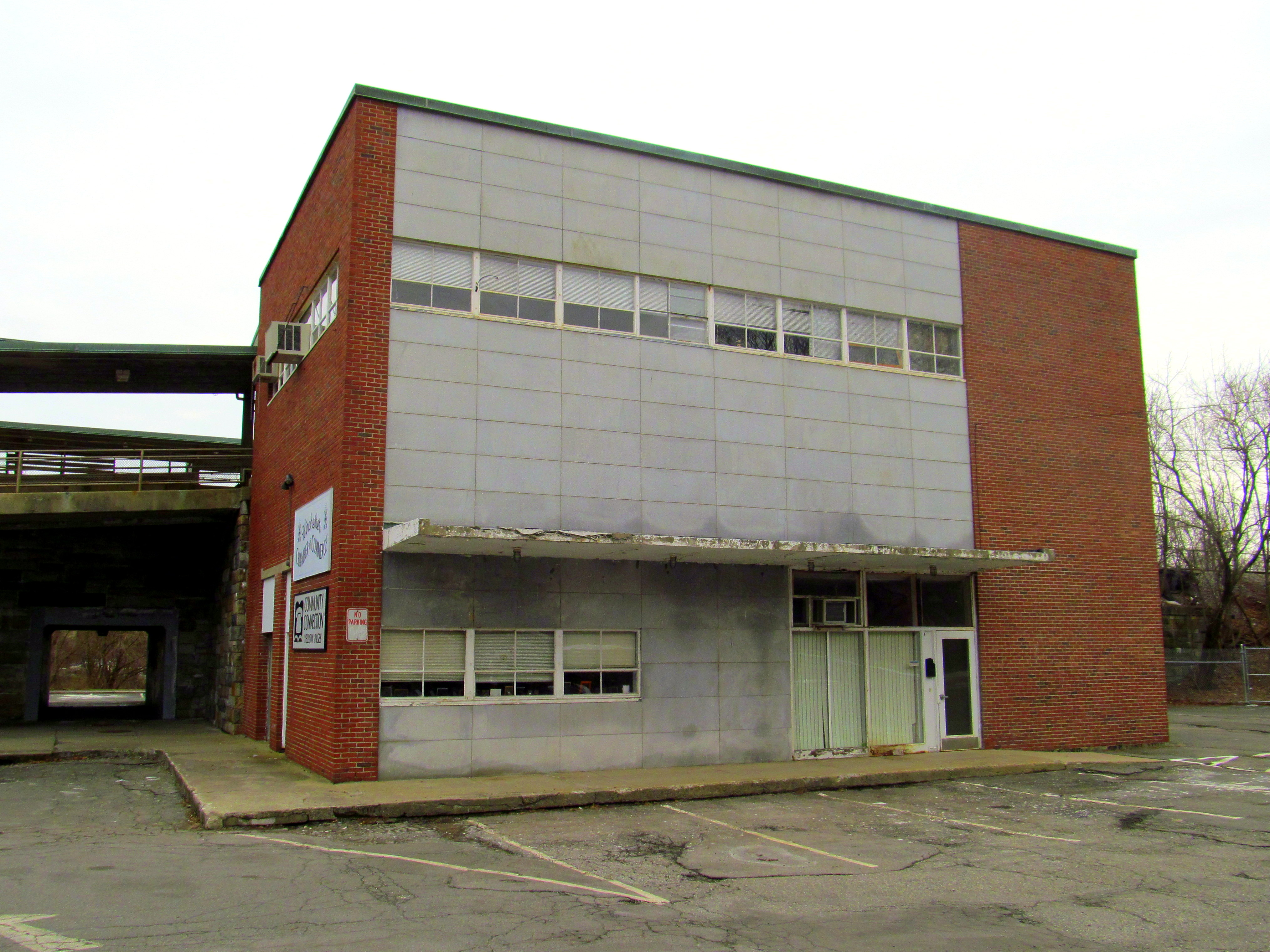 1957-built station building at Winchester Center